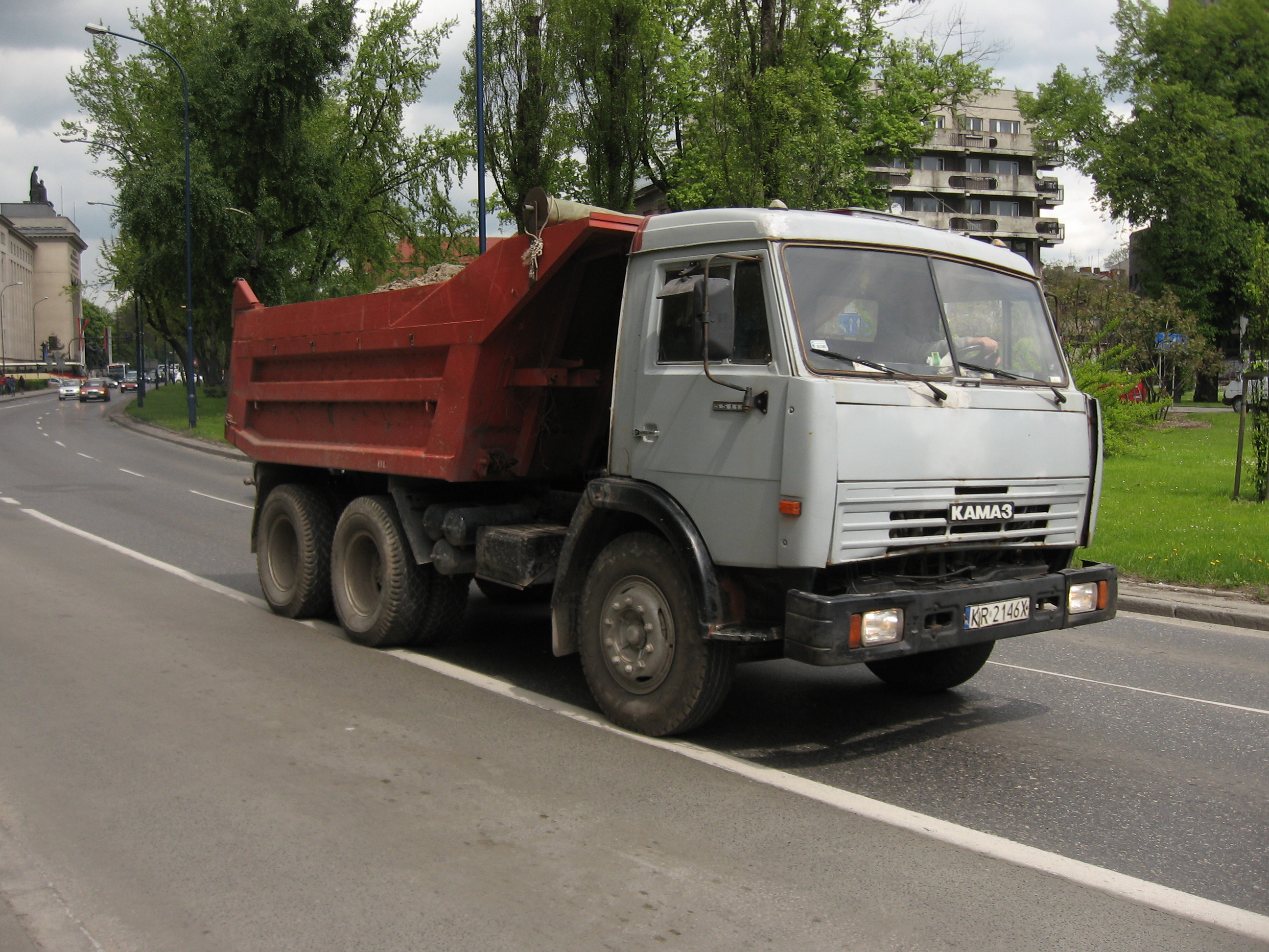 KamAZ-55111 on Adama Mickiewicza avenue in Kraków.